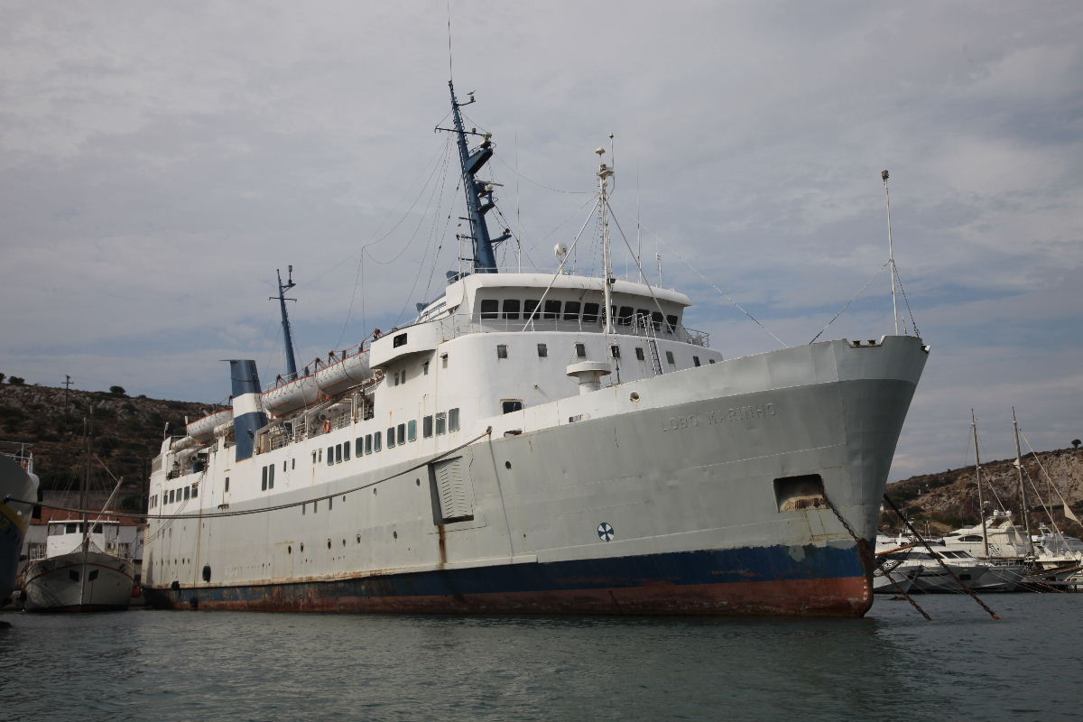 The ferry Menhir in Perama on June 9, 2010.